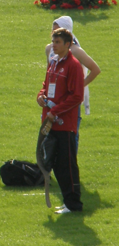 Robert Szpak (world junior championships in javelin throw), Zdzisław Krzyszkowiak Stadium - Bydgoszcz /World Junior Championships in Athletics/